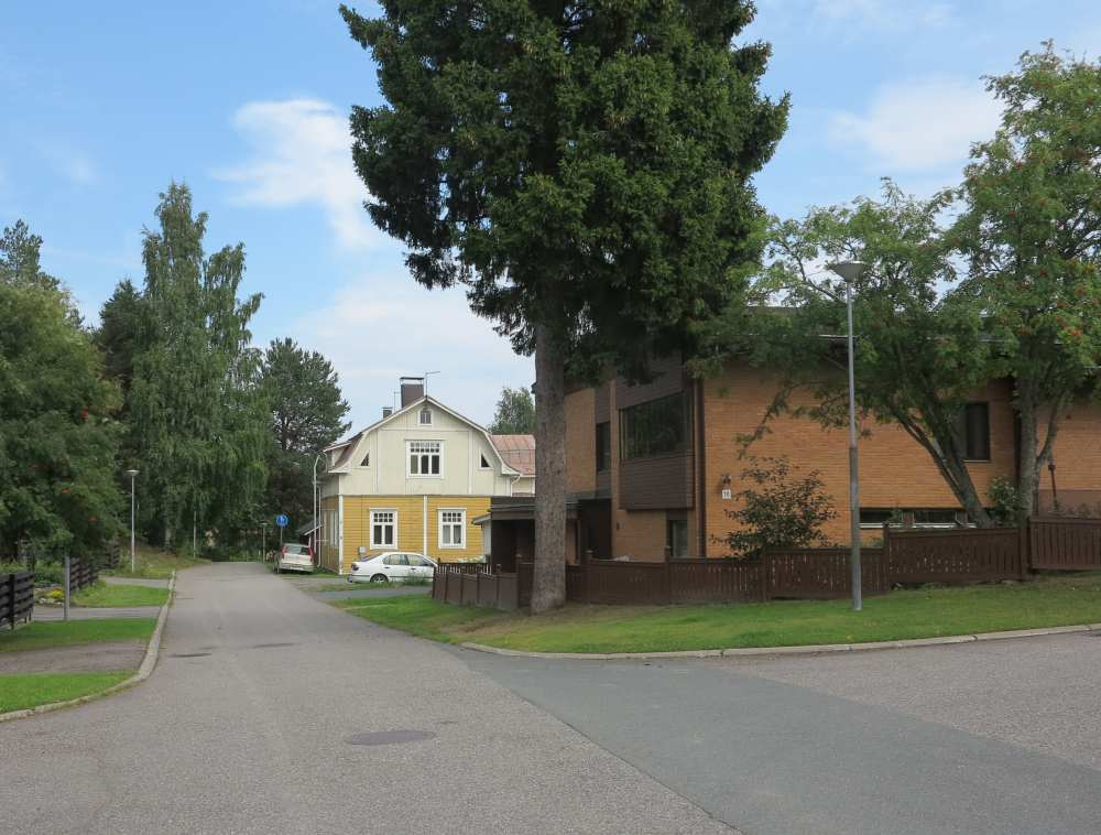 Siihtala suburb in Joensuu, Finland